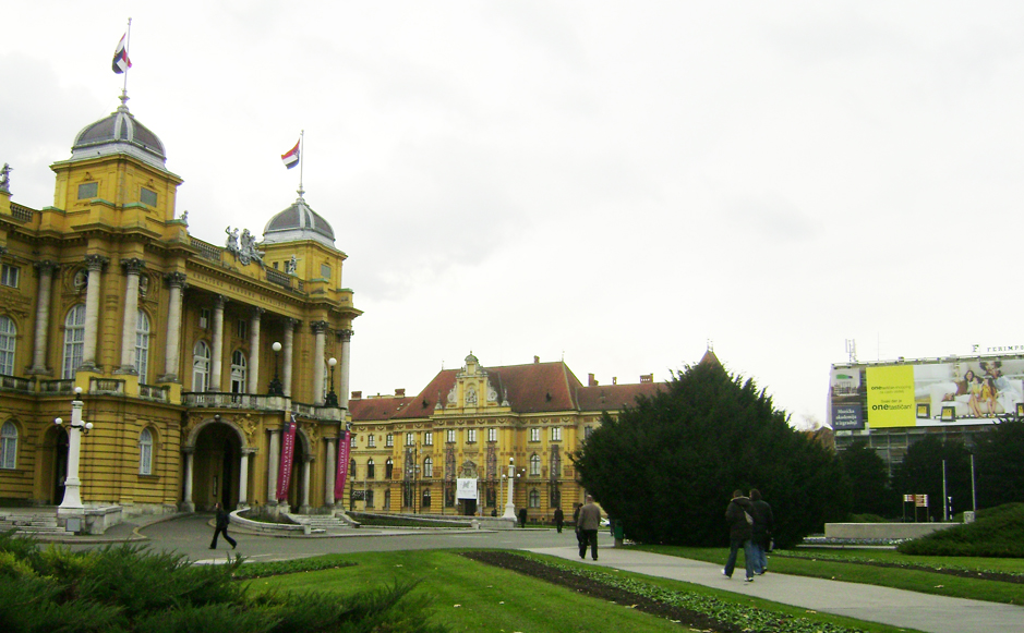 picture of trg marsala tita square